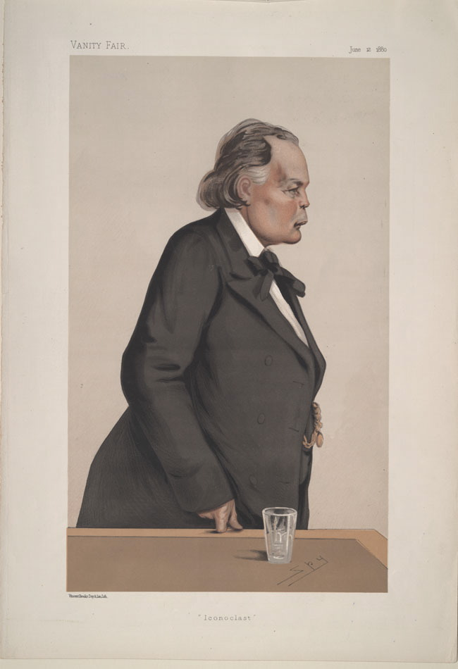 Statesmen No.328: Caricature of Mr C Bradlaugh MP. Caption reads: "Iconoclast"